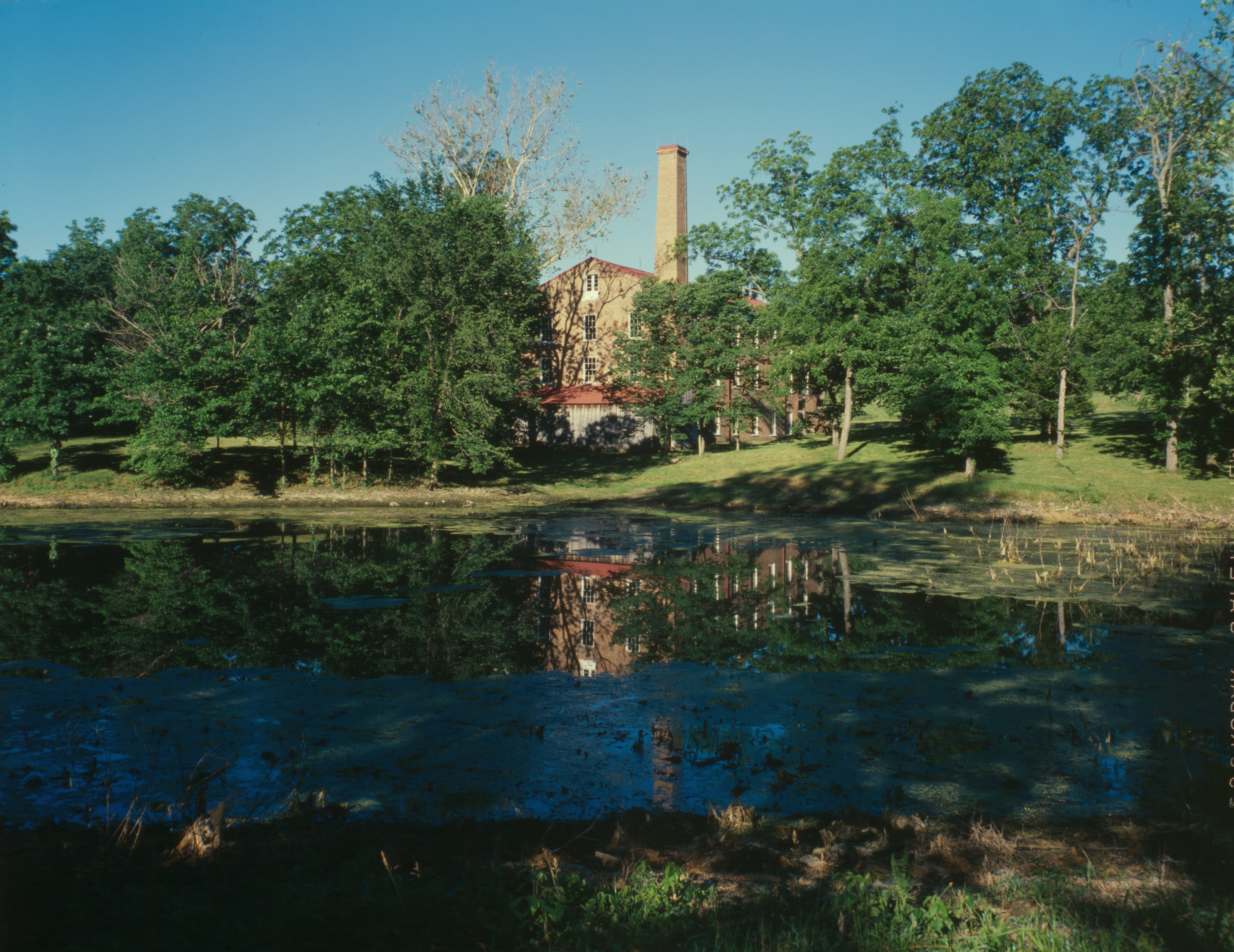 Watkins Mill, County Highway MM, Lawson vicinity (Clay County, Missouri) This file comes from the Historic American Buildings Survey (HABS), Historic American Engineering Record (HAER) or Historic American Landscapes Survey (HALS). These are programs of the National Park Service established for the purpose of documenting historic places. Records consist of measured drawings, archival photographs, and written reports. This tag does not indicate the copyright status of the attached work. A normal copyright tag is still required. See Commons:Licensing for more information. This work is in the public domain in the United States because it is a work prepared by an officer or employee of the United States Government as part of that person’s official duties under the terms of Title 17, Chapter 1, Section 105 of the US Code. Note: This only applies to original works of the Federal Government and not to the work of any individual U.S. state, territory, commonwealth, county, municipality, or any other subdivision. This template also does not apply to postage stamp designs published by the United States Postal Service since 1978. (See § 313.6(C)(1) of Compendium of U.S. Copyright Office Practices). It also does not apply to certain US coins; see The US Mint Terms of Use. This file has been identified as being free of known restrictions under copyright law, including all related and neighboring rights.